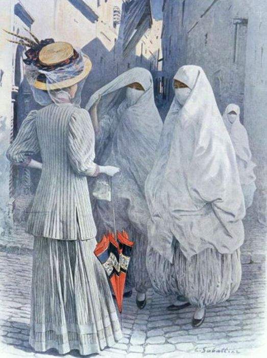 European Woman in Algeria, 1910 by Louis Remy Sabattier